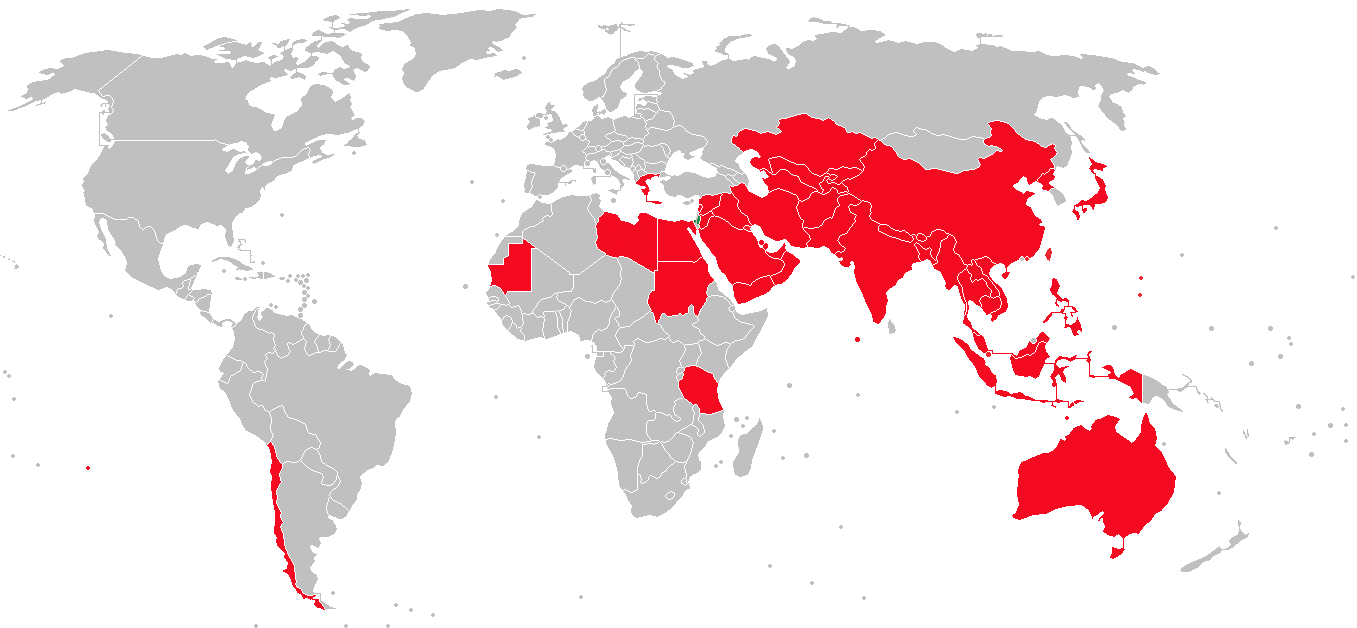 This is a map showing the countries that played against Palestine football team.